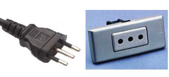 Type L plug. See Talk:Mains power plug for full information.